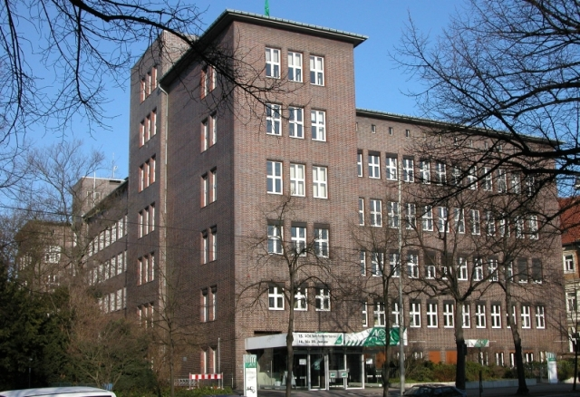 Brunswick, Germany: Building of the general health insurance (“AOK”). Between 1930 and 1945 it was abused by Nazis as a prison for preventive detention in which political opponents were being tortured (picture taken in January 2006).